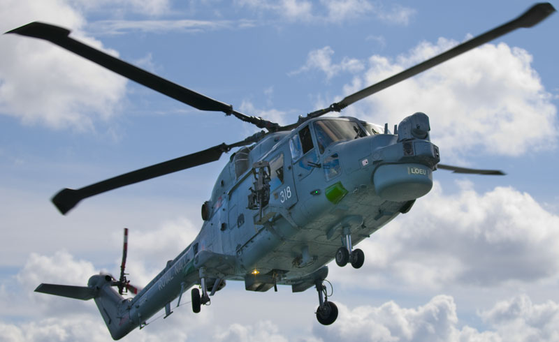 Westland Lynx HMA.8 (ID: 318 / ZD252) from the Royal Navy Lynx Operational Evaluation Unit (LOEU)